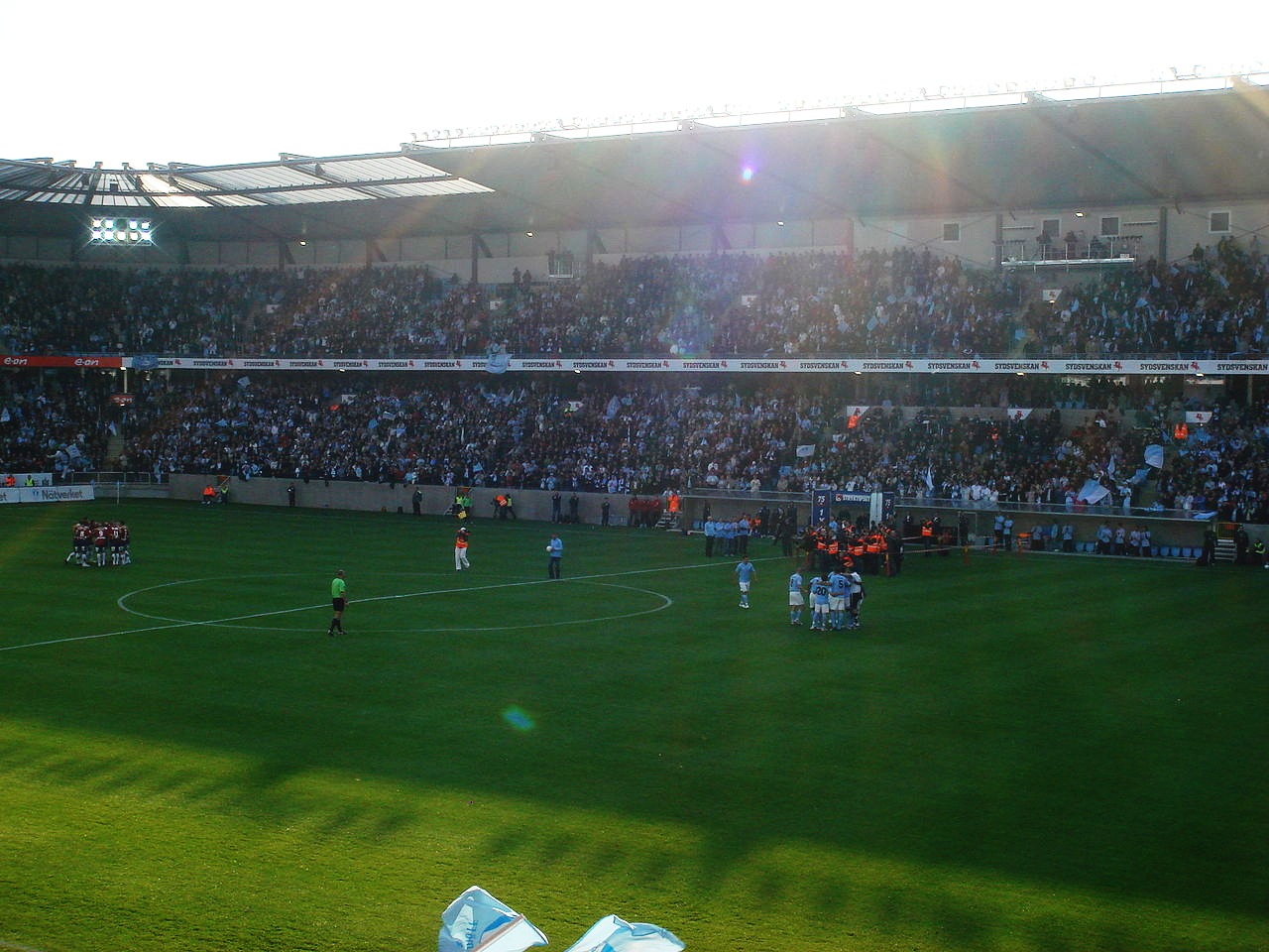 Bo Larsson about to kick off for the very first time at Swedbank Stadion